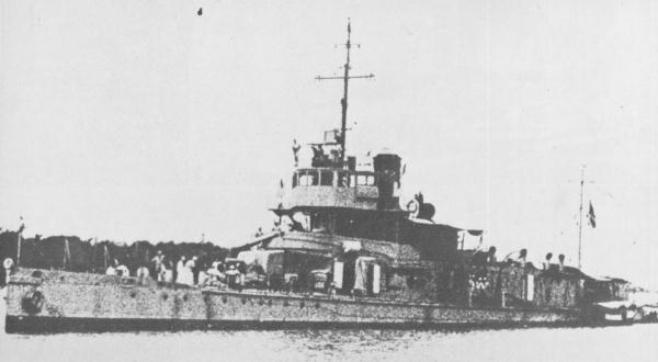 Japanese Gunboat "Suma" at HongKong.(ex.HMS-Moth)